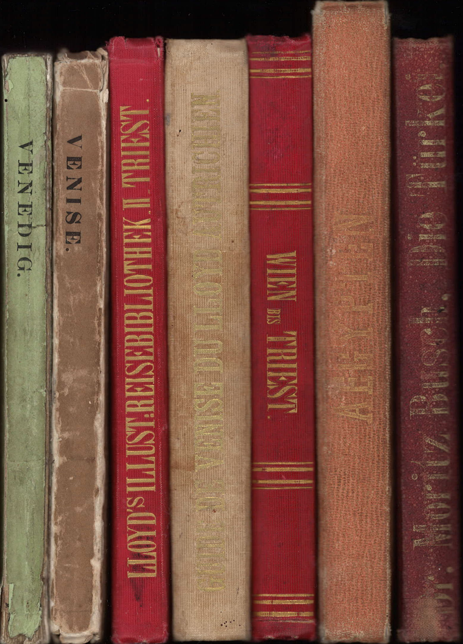 Different spines of Lloyd's guide books